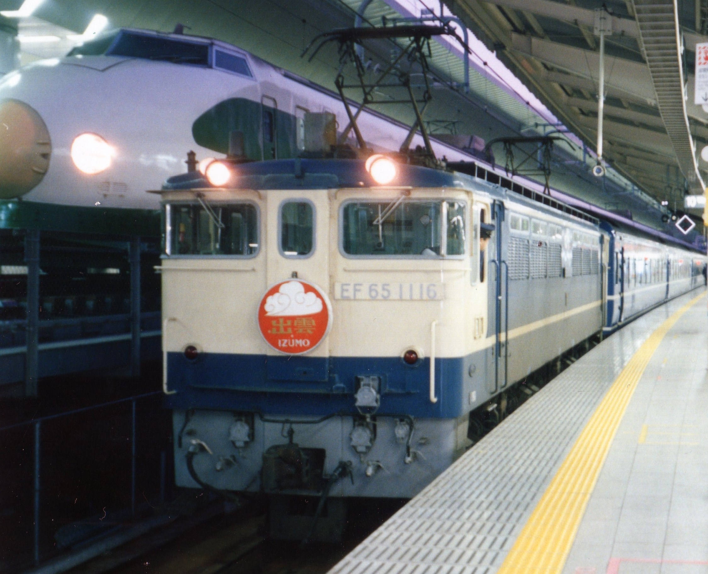 JR East class EF65-1000 electric locomotive EF65-1116 on the Izumo 4 overnight sleeping car service at Tokyo Station